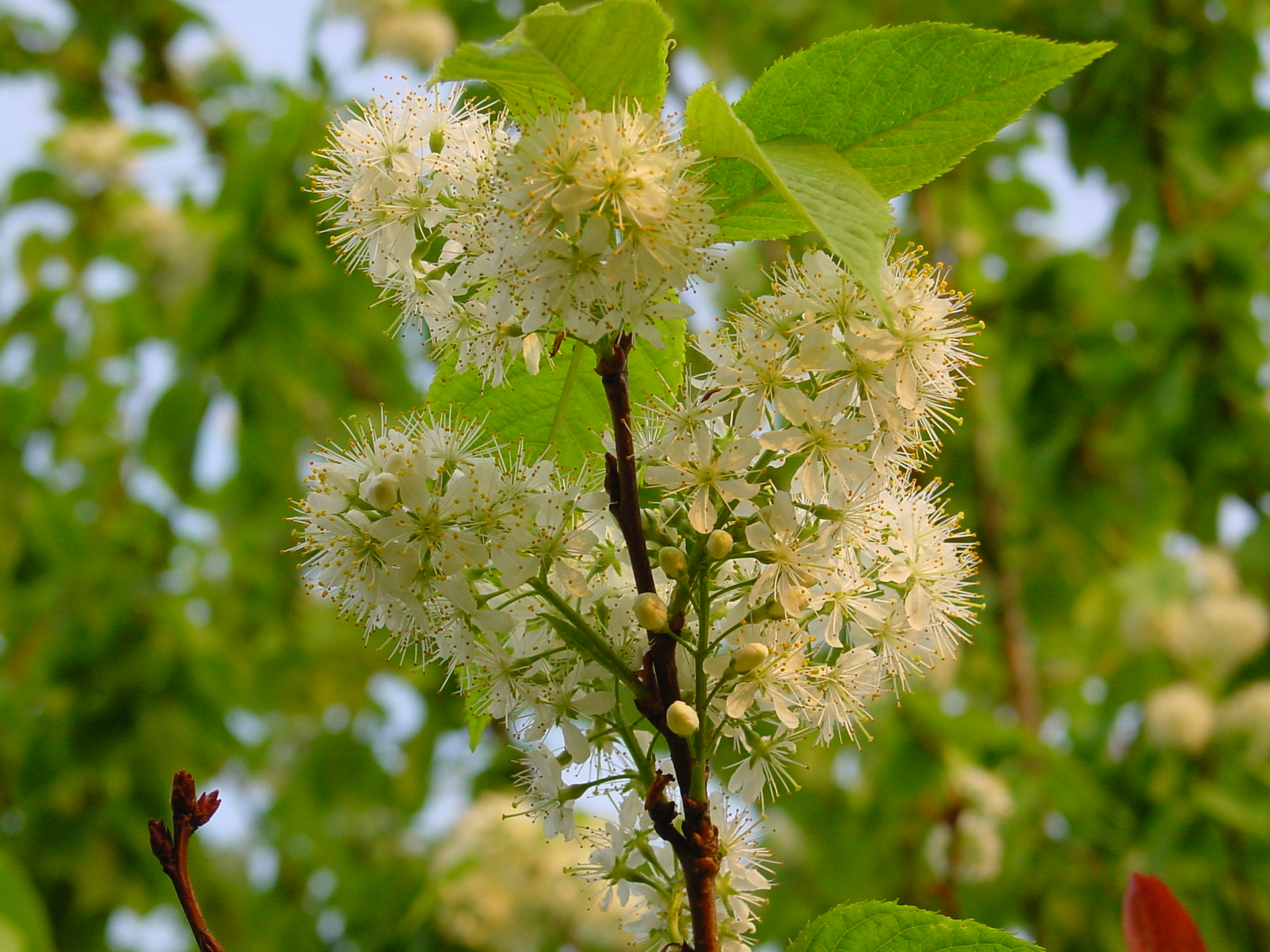 Amur Chokeberry